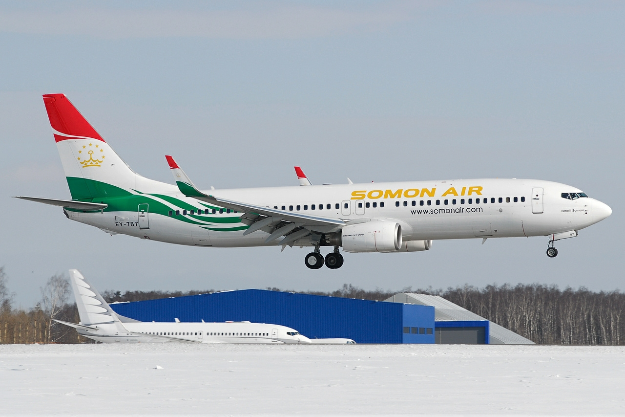 Somon Air Boeing 737-8GJ